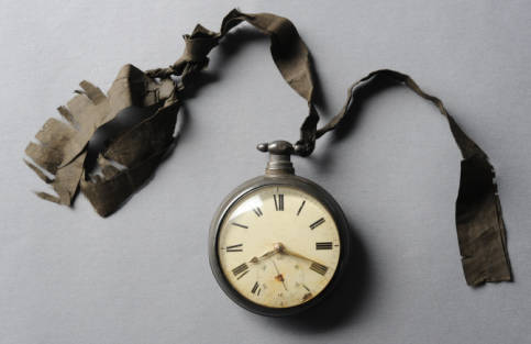 Watch belonging to Elisha Mitchell, which broke during his fatal fall verifying the measurements of Mount Mitchell in 1857. The watch thus shows the exact time of his death. Object belongs to the North Carolina Collection of the University of North Carolina at Chapel Hill.